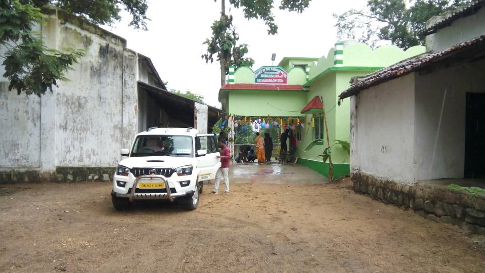 Range Office